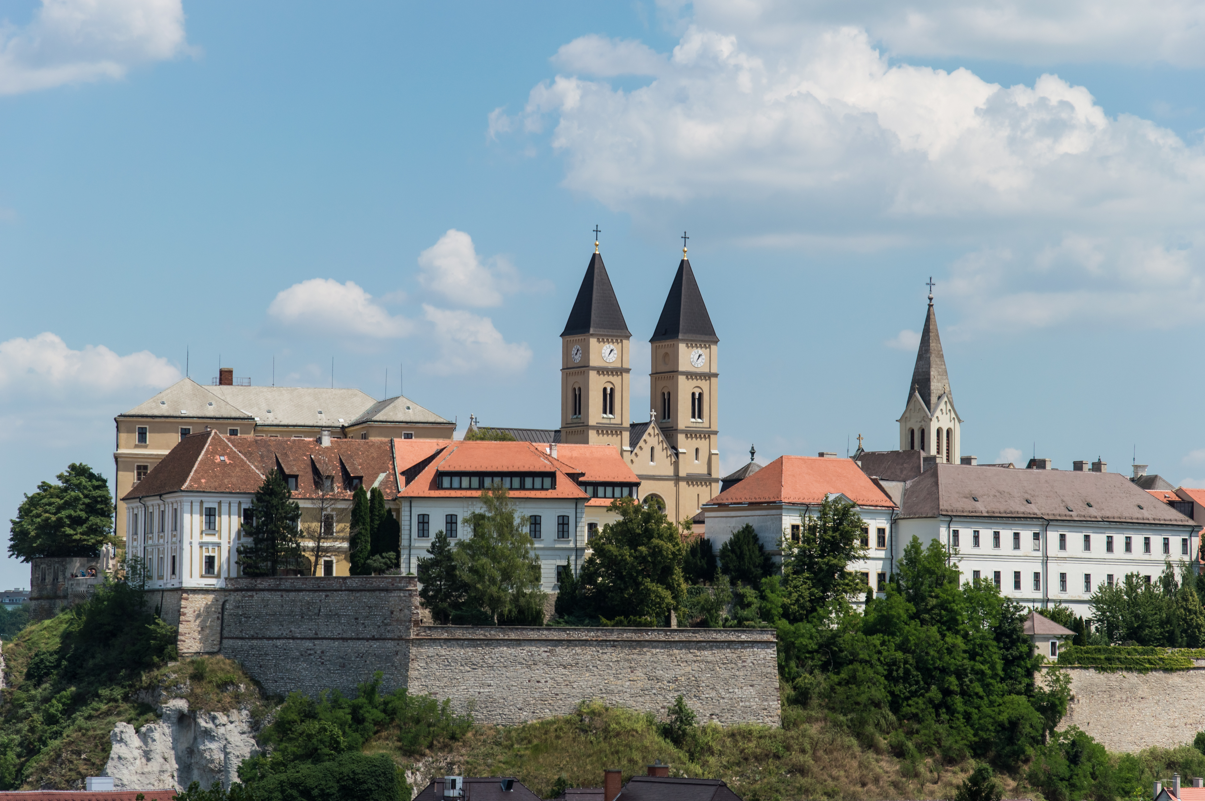 Medieval castle of Veszprém.